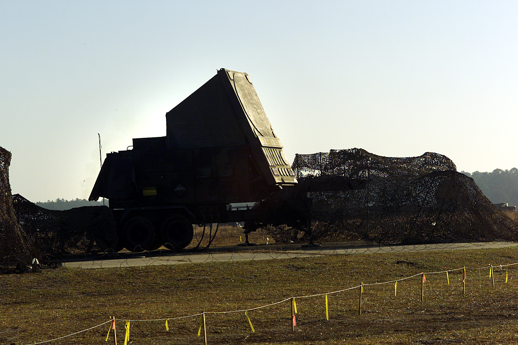 The AN/MPQ-53 radar system used by the Patriot for target detection, tracking and missile guidance.